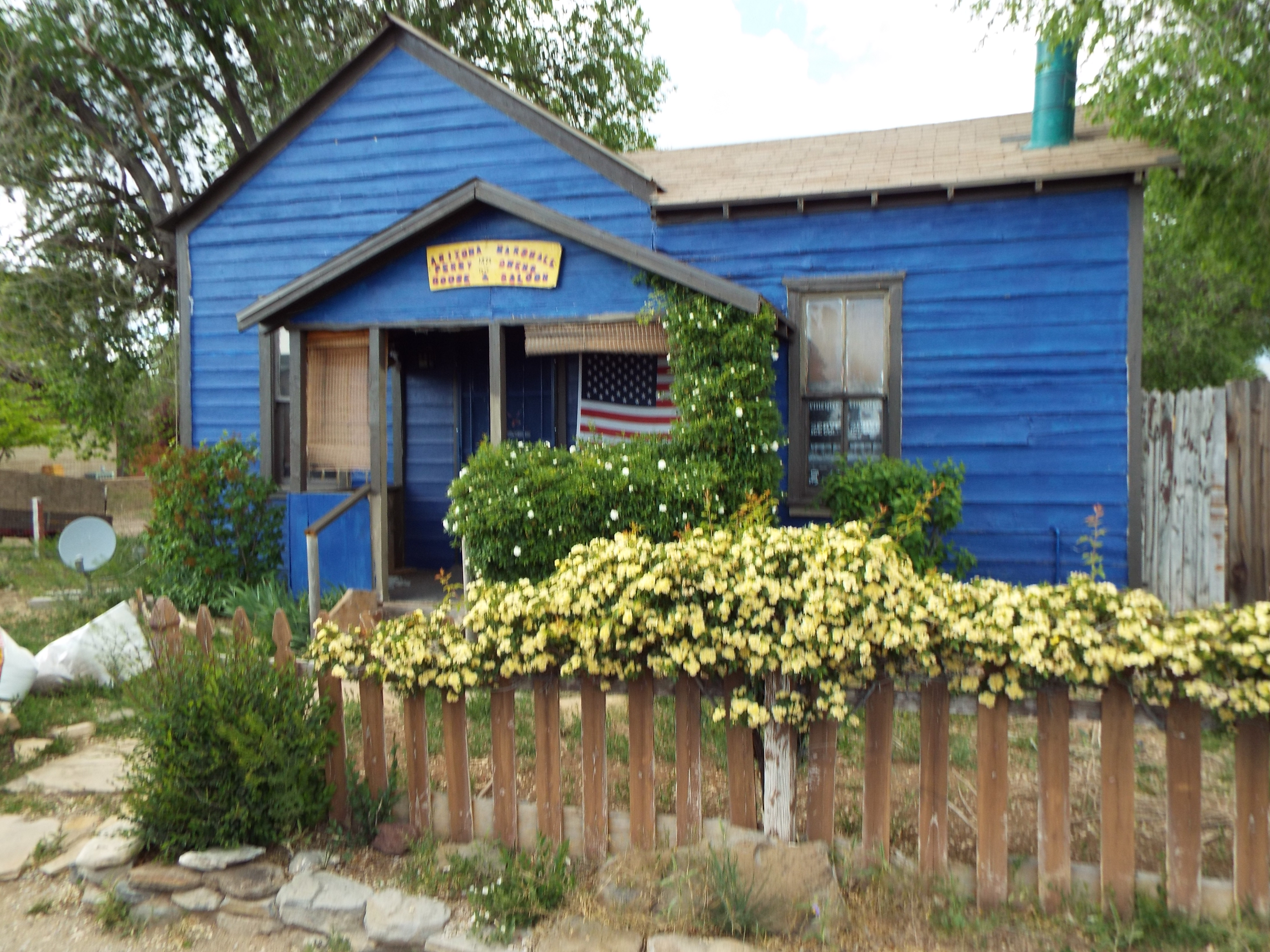 Commodore Perry Owens House-1880s in Seligman, Az